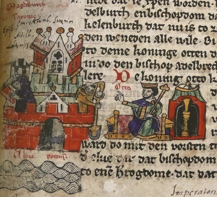 Otto I, Holy Roman Emperor and Magdeburg